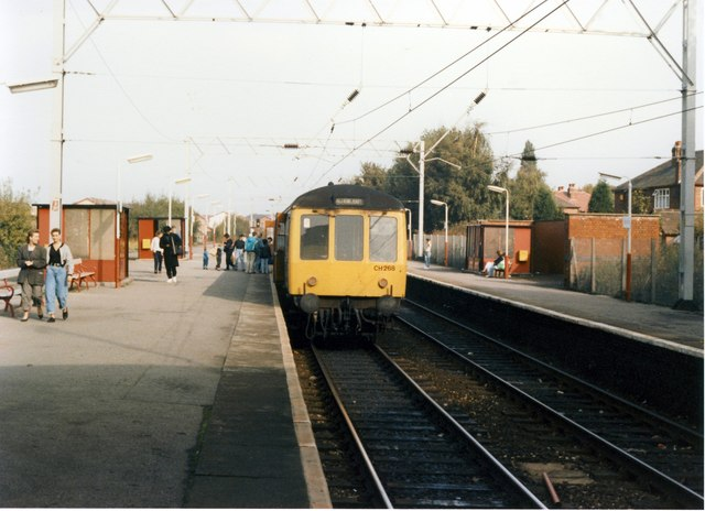 Stretford Metrolink station Original description: Stretford station The diesel was operating a Stretford-Altrincham shuttle service while the line was blocked beyond Old Trafford due to signalling and electrical work at Manchester Piccadilly.